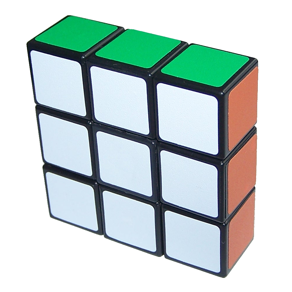 This kind of Rubik's Cube is called Floppy Cube or 3×3×1. You can see it here in the solved state. His mechanism allows to turn the front, the right, the back and the left side, and also the two inner layers 180°. You can them turn 90°, too, but then you can't turn anything else, without turning your side the rest of the 180° (and the two layers, which are parallel to your side). The total number of permutations of the Floppy Cube is 192 and you can it solve always in less or exactly 8 moves.